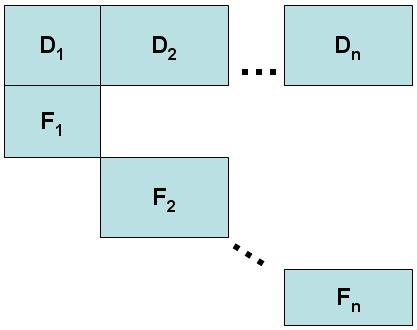 A matrix with block angular structure and coupling rows. Useful in describing the Dantzig-Wolfe Decomposition algorithm.